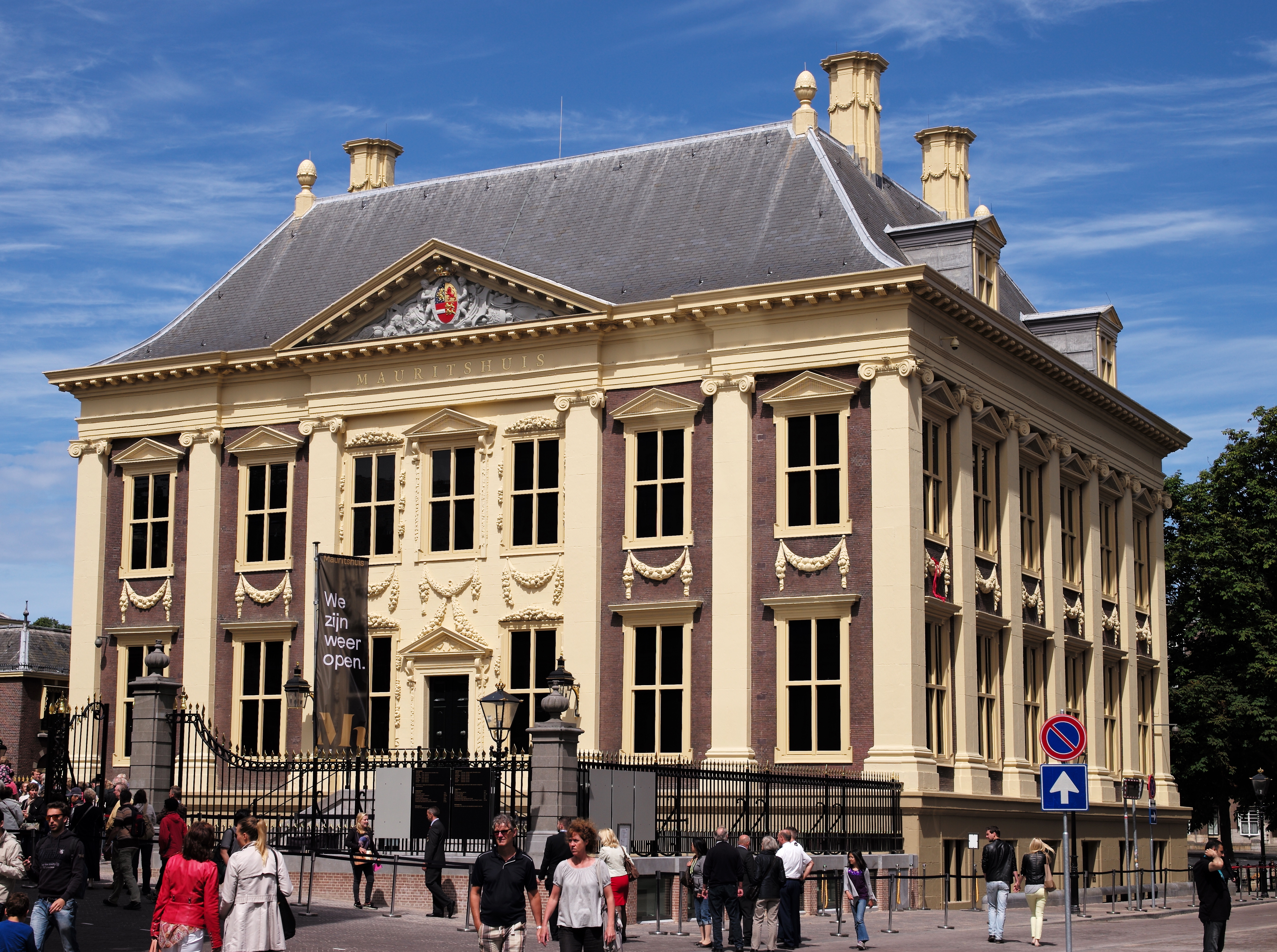 After extensive renovation, the Mauritshuis Museum in the Hague, the Netherlands, re-opened on Friday, 27 June 2014.